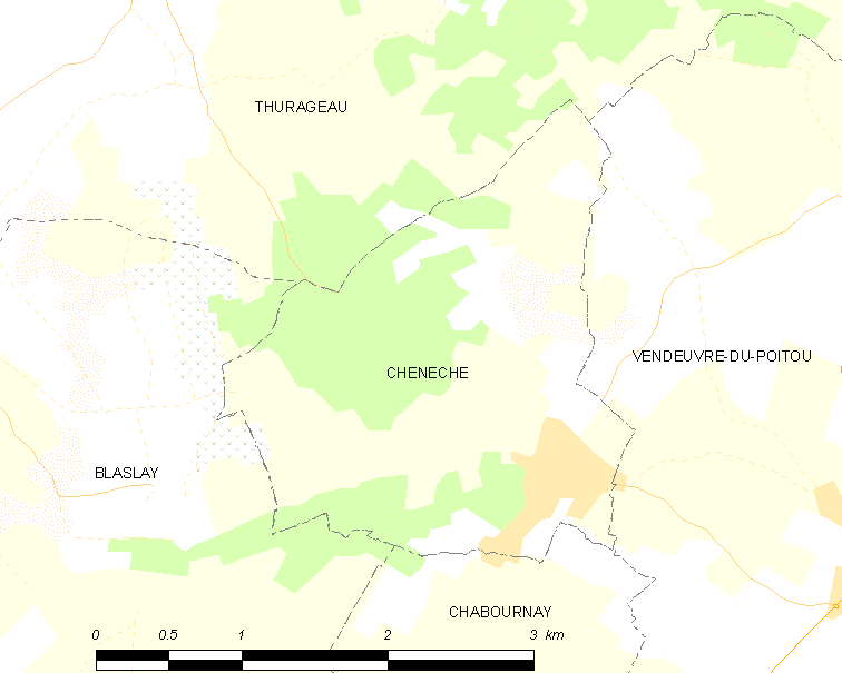 Map of French municipality Cheneché